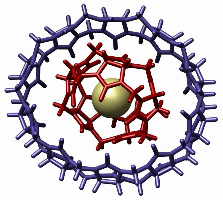 This is a picture generated from crystal structure data reported by Anthony I. Day, Rodney J. Blanch, Alan P. Arnold, Susan Lorenzo, Gareth R. Lewis, and Ian Dance in Angewandte Chemie International Edition, Year 2002, Volume 41, Pages 275-277. It shows a chlorine anion bound within a cucurbit[5]uril that both are bound within cucurbit[10]uril. The complex was described as a molecular gyroscope. It was made by myself and is free to be use by all.